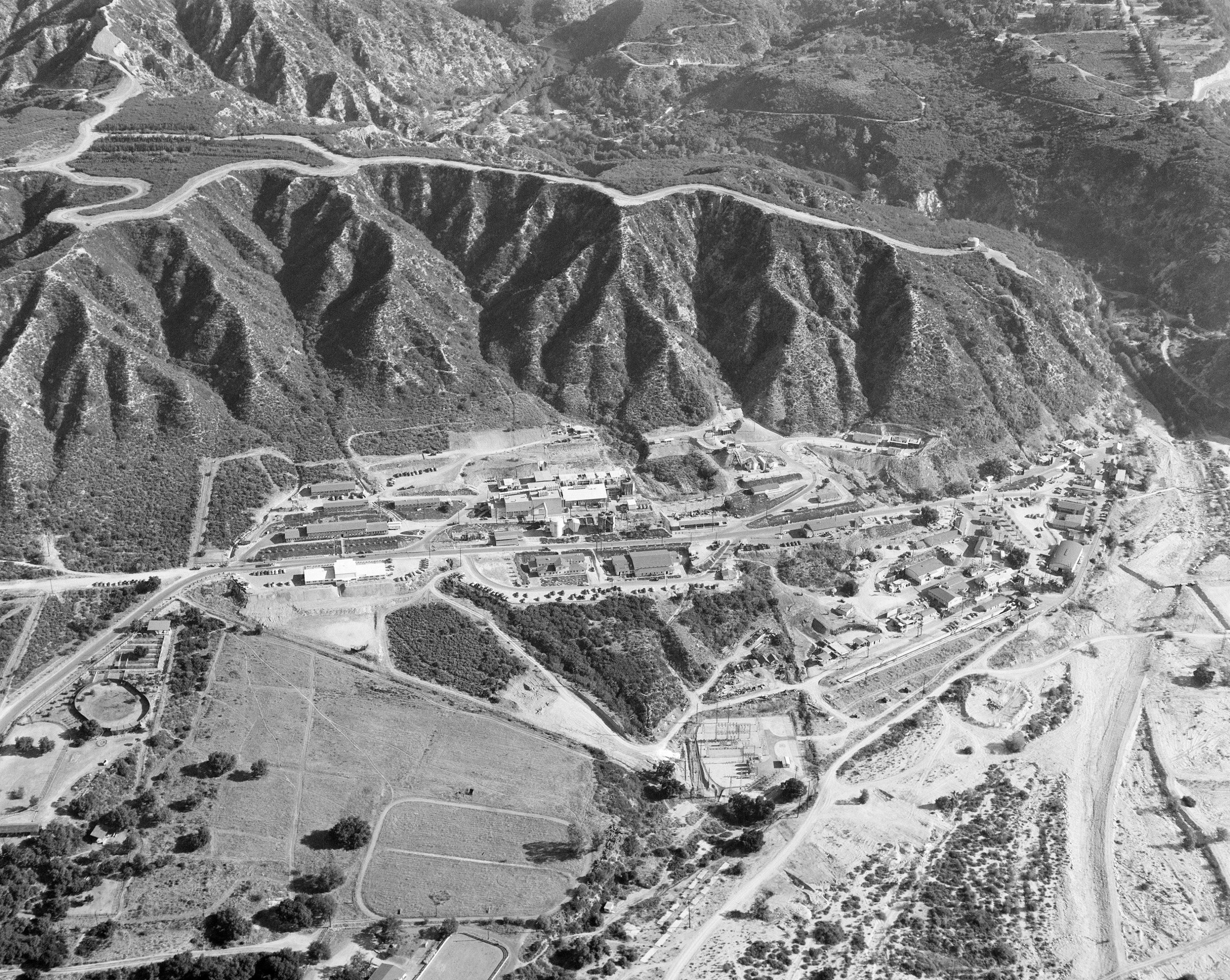 JPL aerial 1950 September 20, 1950